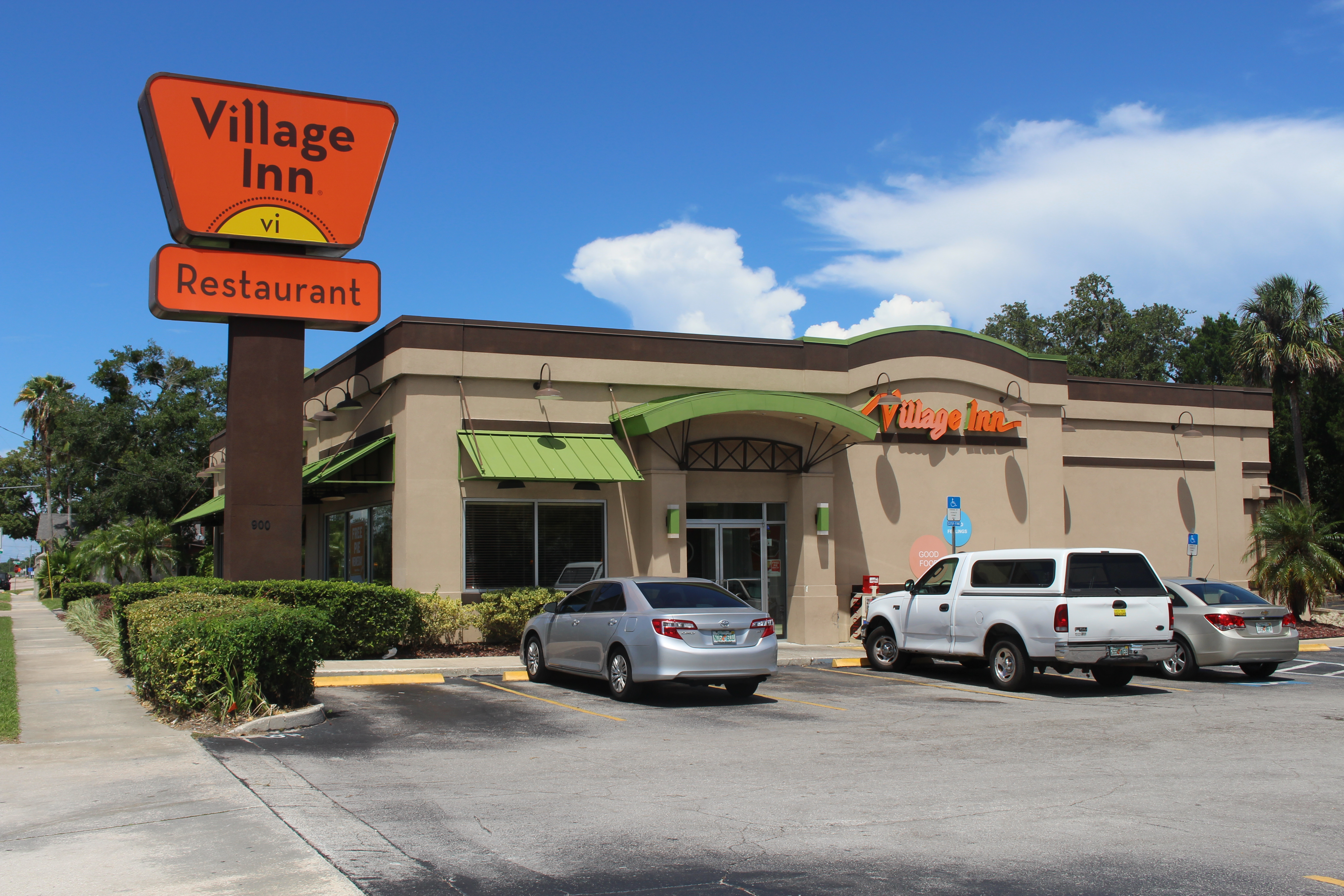 Village Inn, St. Augustine, St. Johns County, Florida